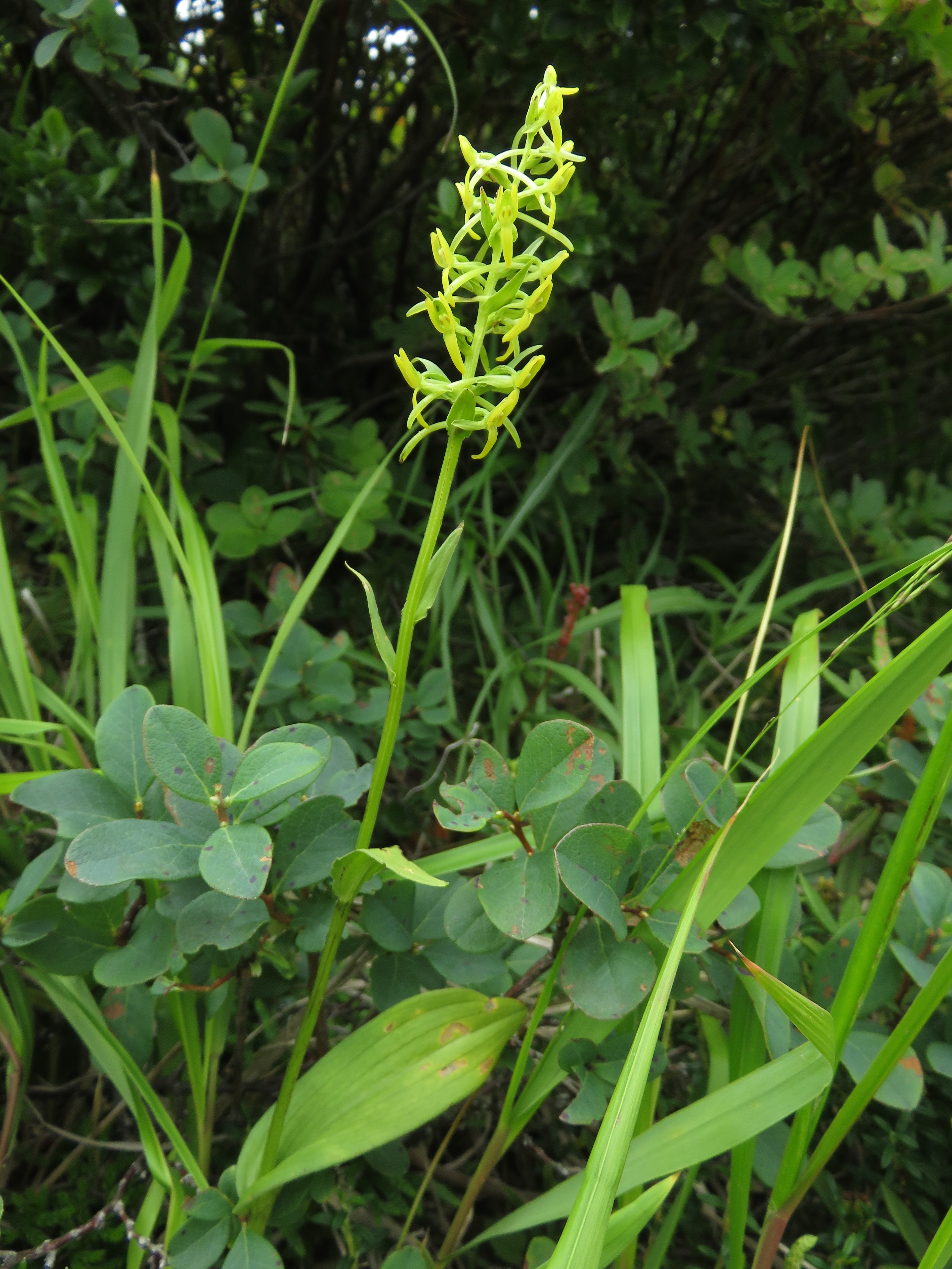 Platanthera tipuloides var. sororia, Mount Adatara, Fukushima pref., Japan